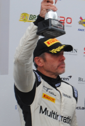 Scott Maxwell on the second step of the GT4 podium at Donington Park after the final round of the 2019 British GT season.